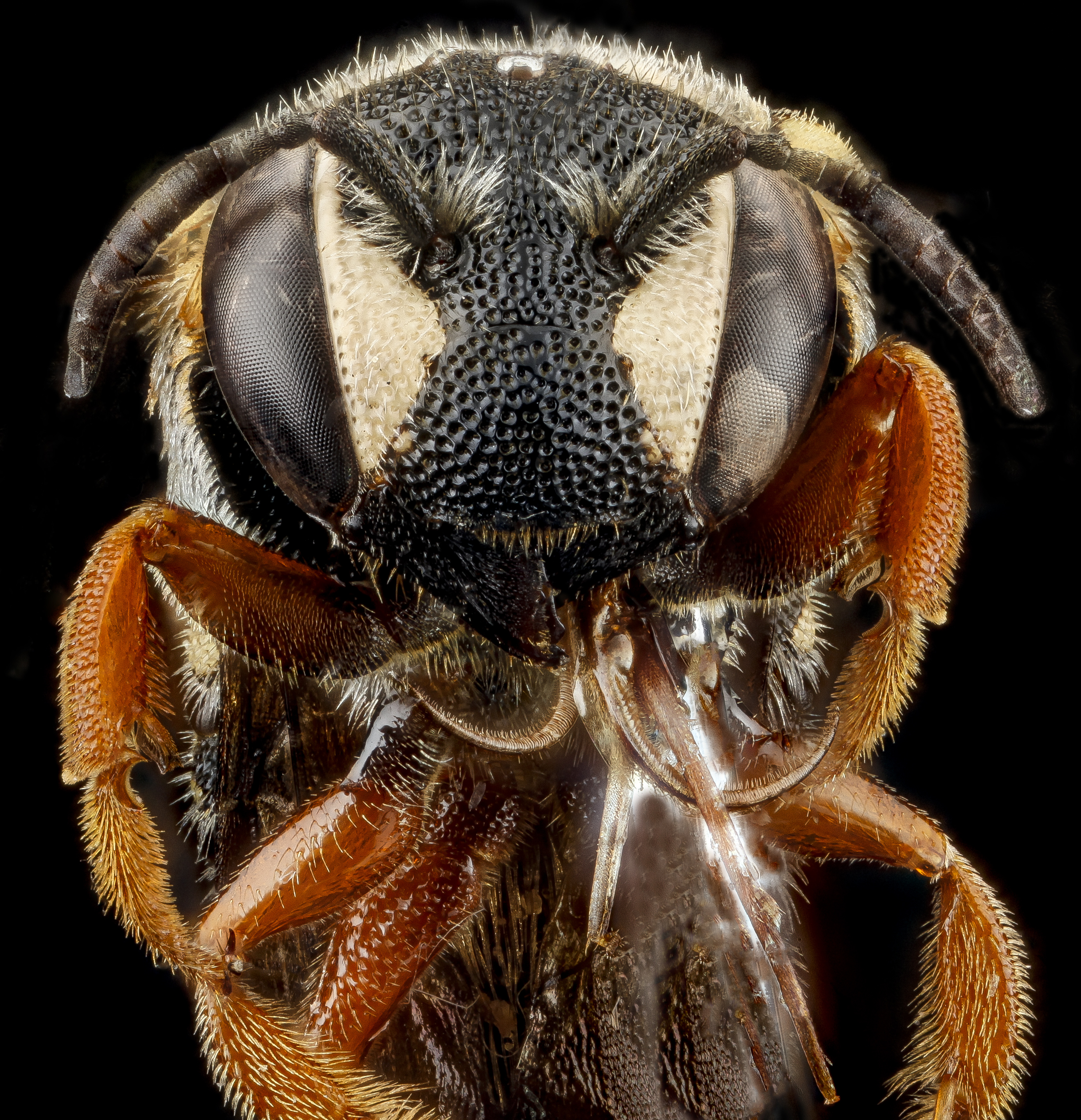 Badlands National Park, South Dakota